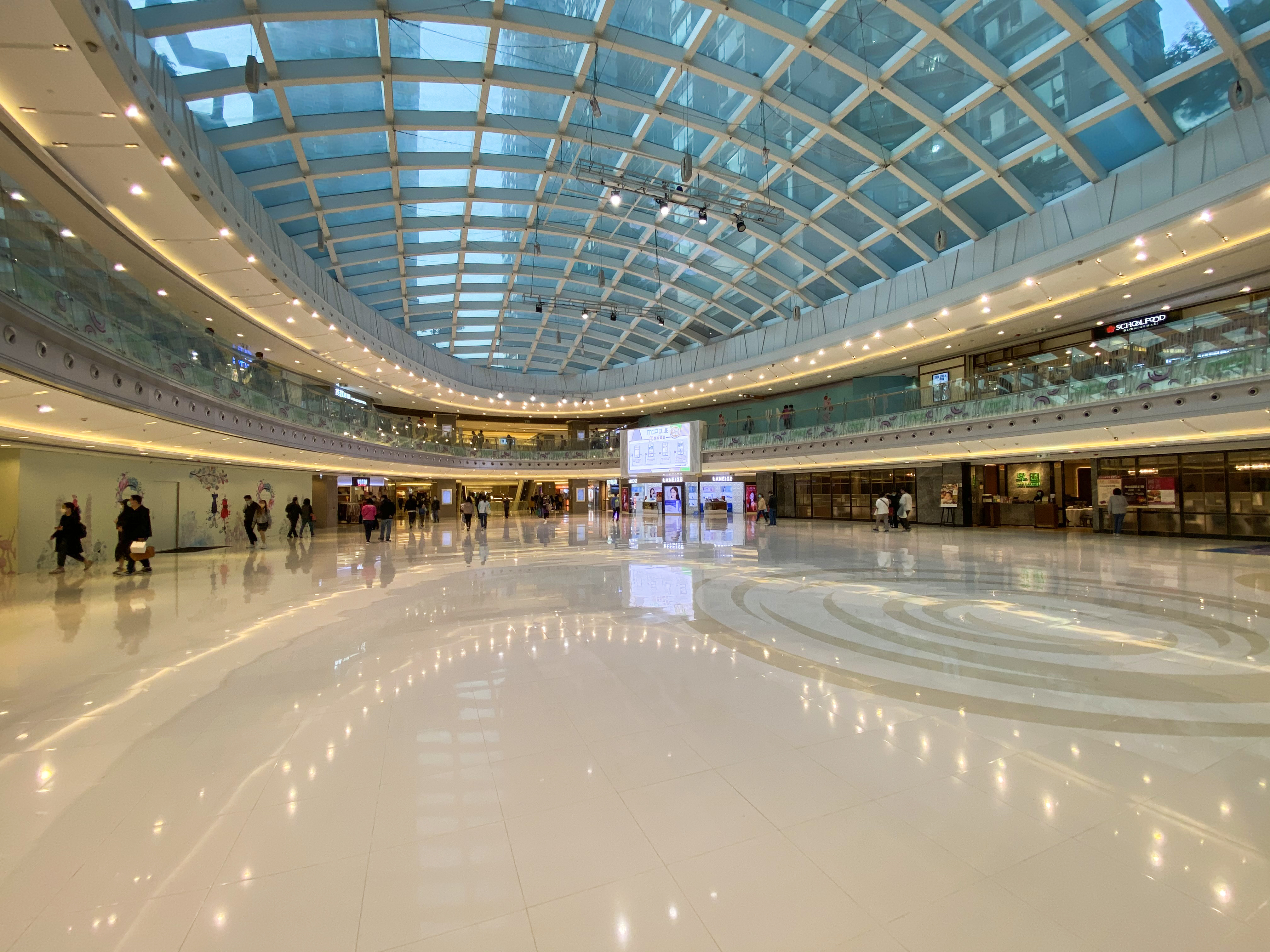 MCP Phase 2 Atrium